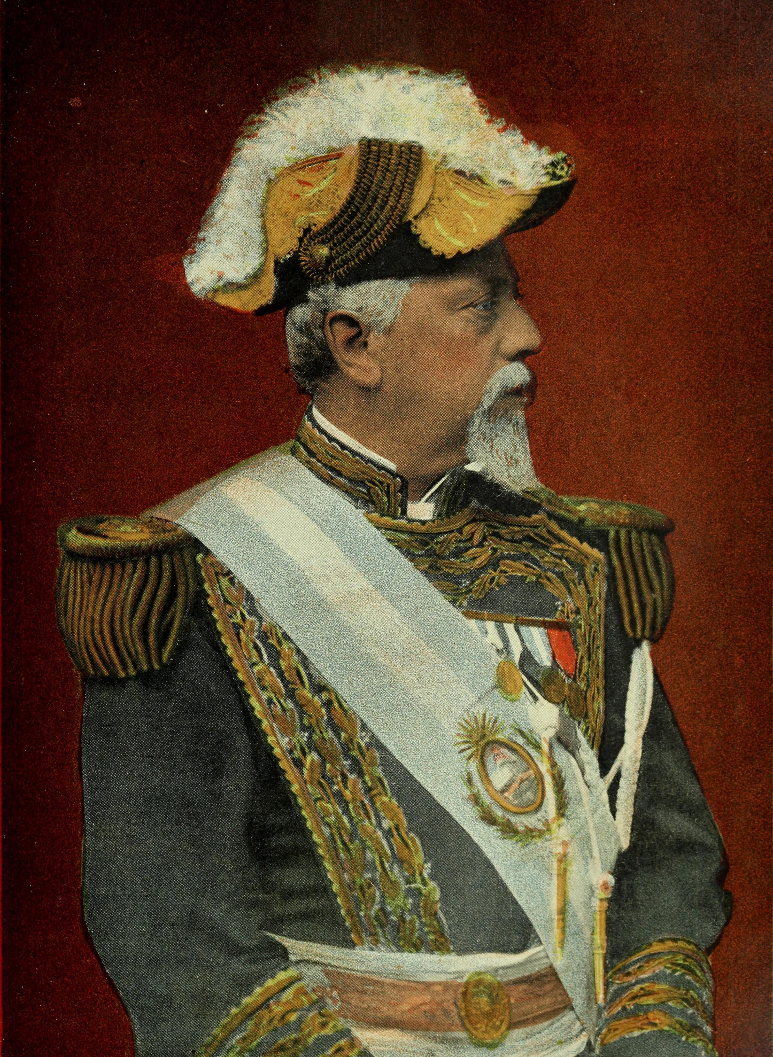 General Don Julio Argentino Roca Title: La Mujer Year: 1899 (1890s) Authors: Subjects: Women Publisher: Buenos Aires : (s.n.) Text Appearing Before Image: ' Text Appearing After Image: Teniente . Oeneral Don J ÜLIO A. ROCAPresidente de la República Argentina